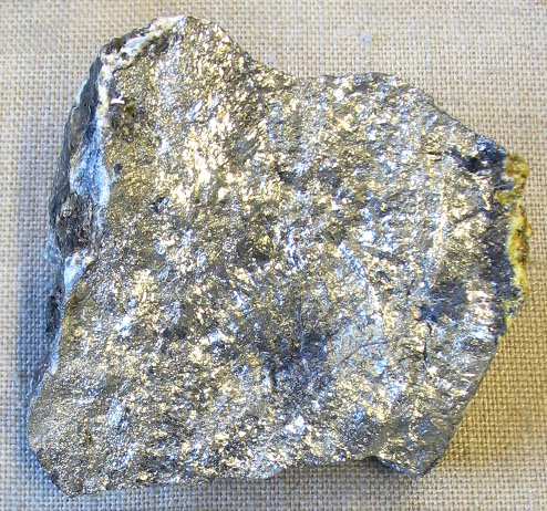 Massive antimony with oxidation products from Arechuybo Mexico. Photograph taken at the Natural History Museum, London.